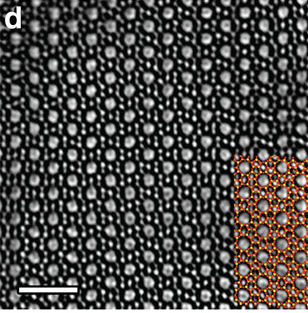 Bragg-filtered HR-TEM image of MFI nanosheet with the overlaid crystal structure along [010] direction